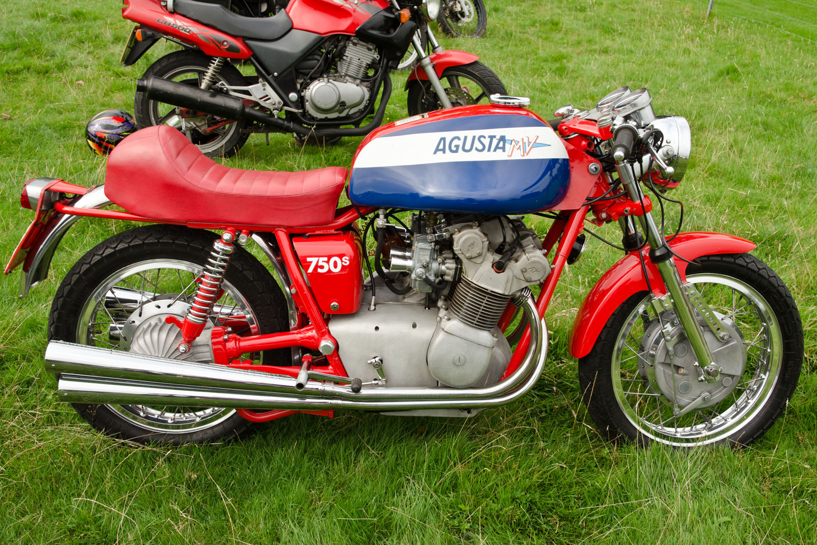 Capesthorne Hall Classic Car Show 25/08/2013